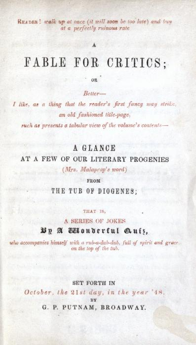 Title page for A Fable for Critics, a book-length satirical poem by American poet James Russell Lowell (though it was originally published anonymously). New York: G. P. Putnam, 1848. Found at , here.